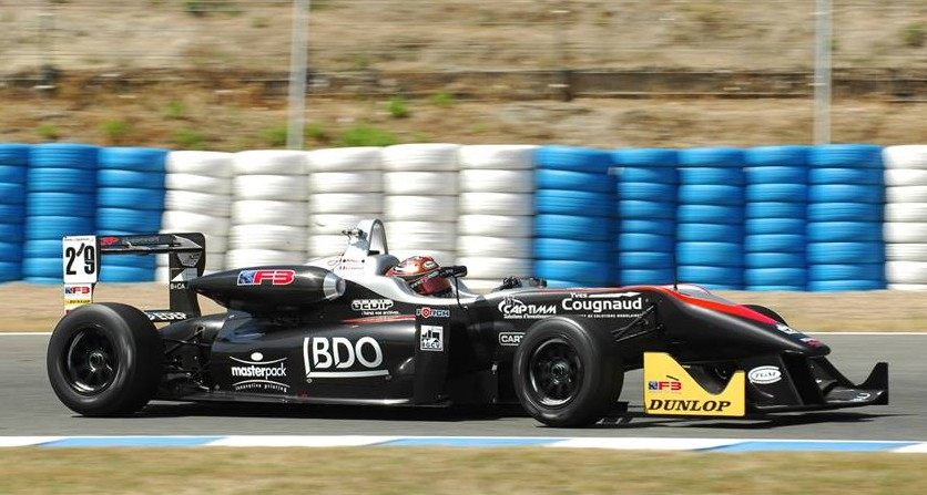 Alexandre Cougnaud driving for RP Motorsport at Jerez in 2013